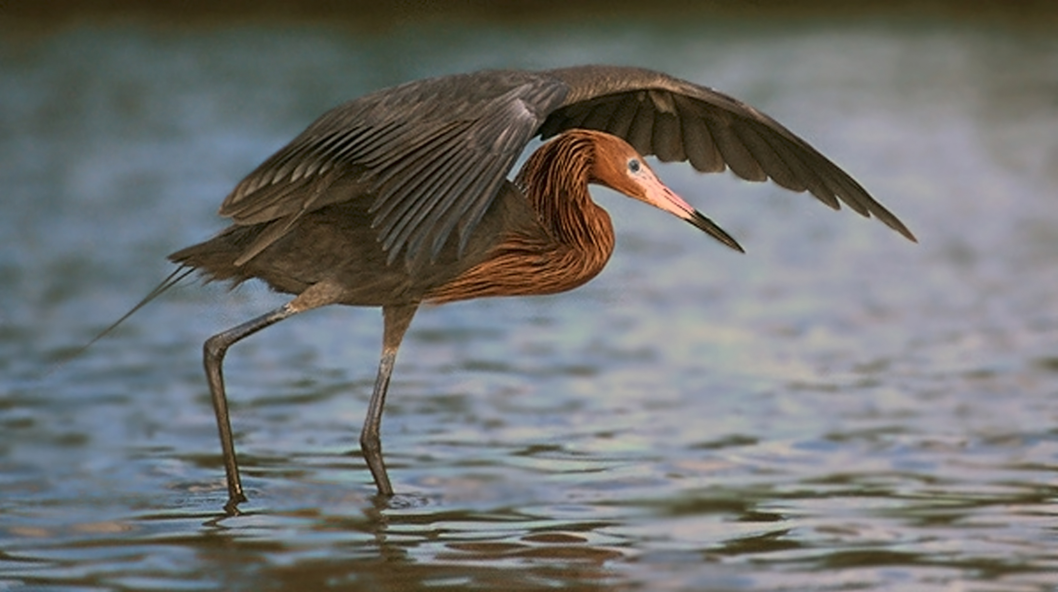 Photographed south of Fort Meyers Beach and north of Bonita Springs Beach, Florida.